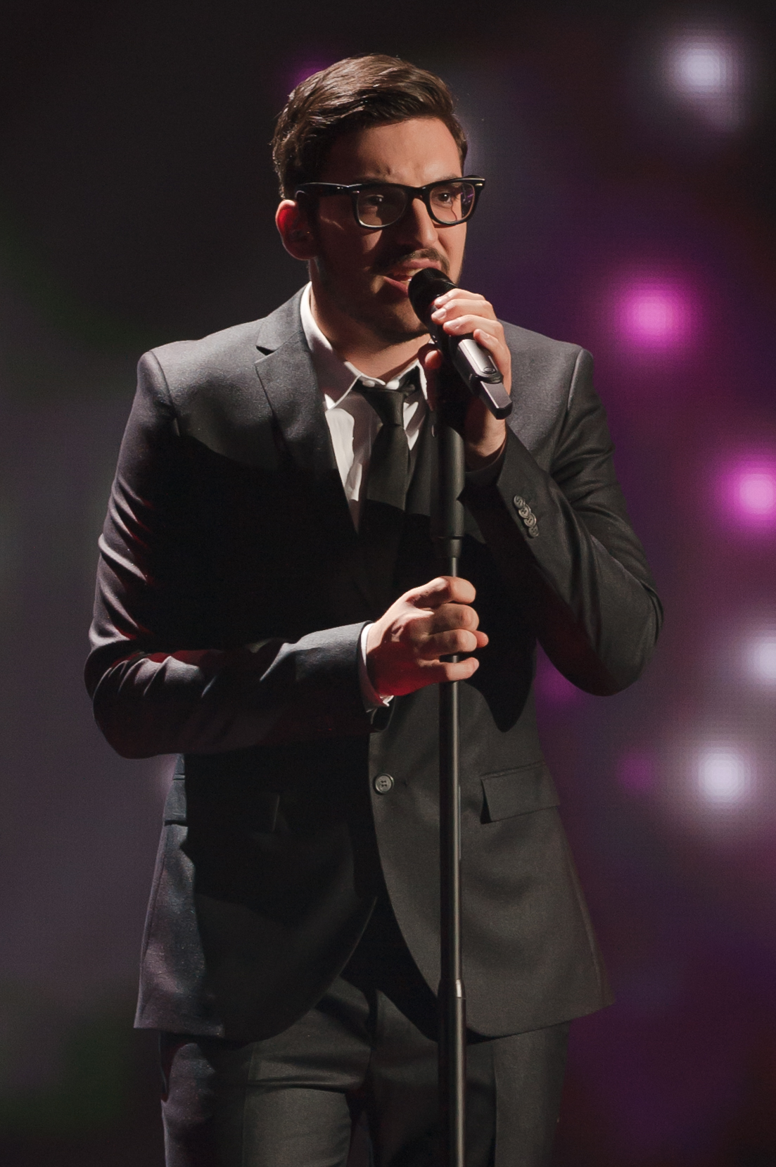 Eurovision Song Contest Vienna 2015: John Karayiannis